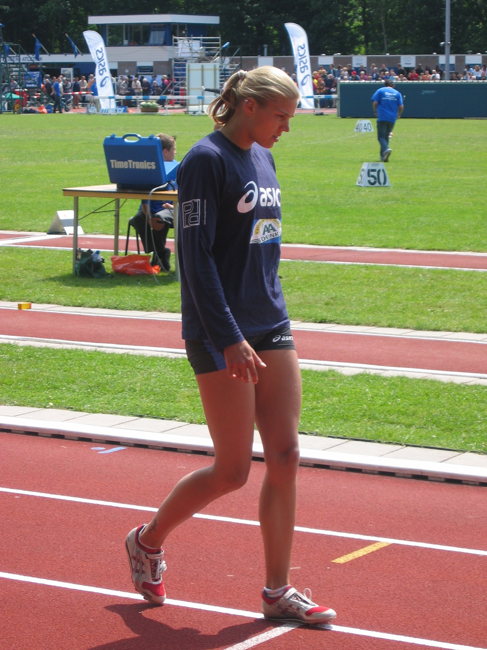 Jolanda Keizer at the Gouden Spike Meeting '08 in Leiden, The Netherlands